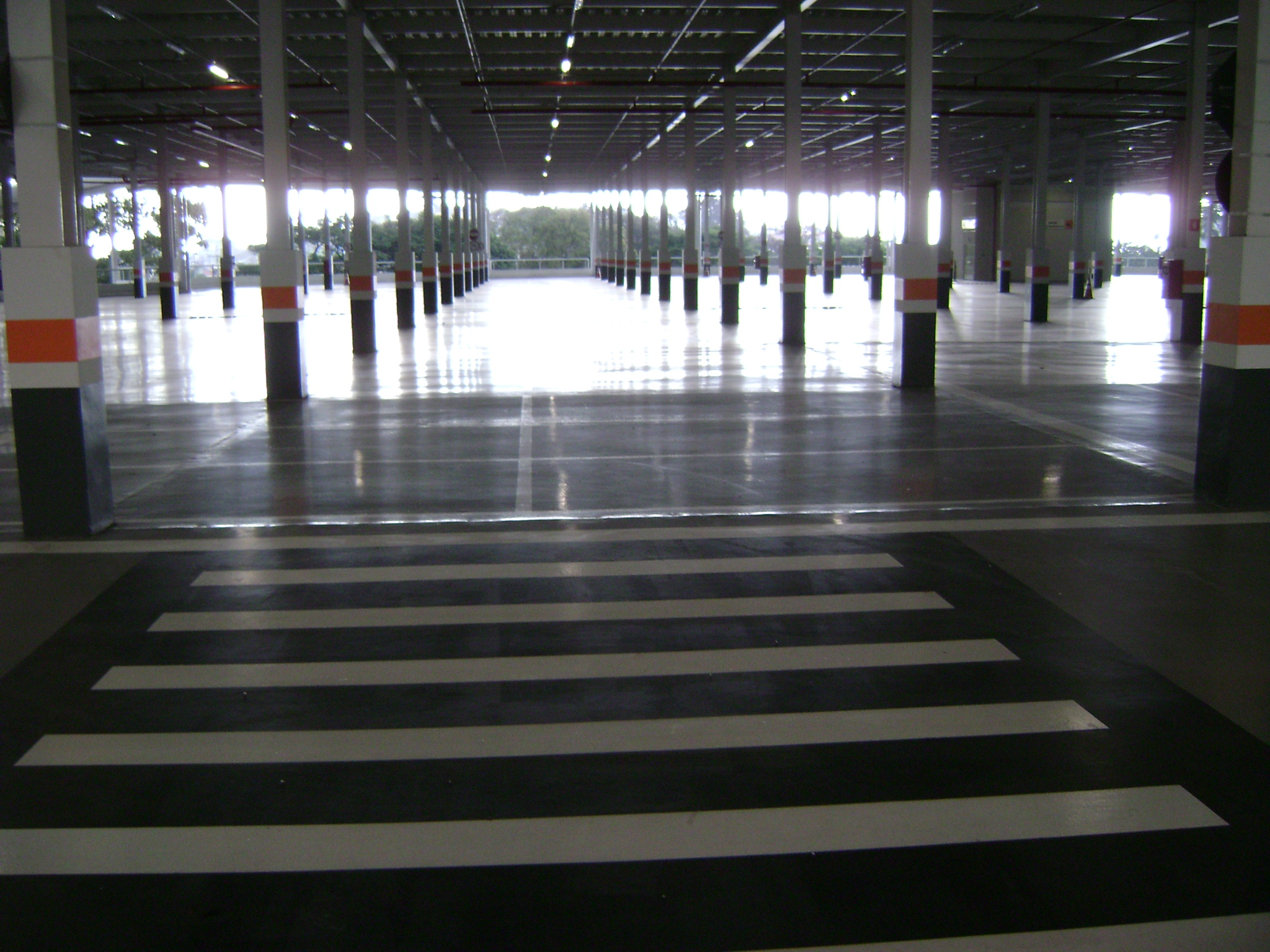 Estacionamento do BH Shopping, passando atualmente por obras de expansão.